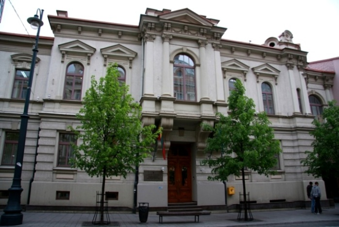 Ministry of Transport and communications of the Respublic of Lithuania